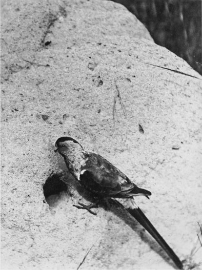 Photographed in the wild, Burnett River, Queensland, 1922. By Jerrard, C. H. H. (Cyril Henry H.), 1889-1943.